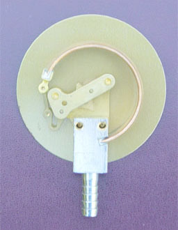 Mechanics of a pressure gauge